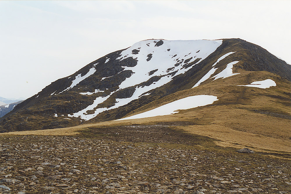 Beinn a' Chreachain, from the north east ridge